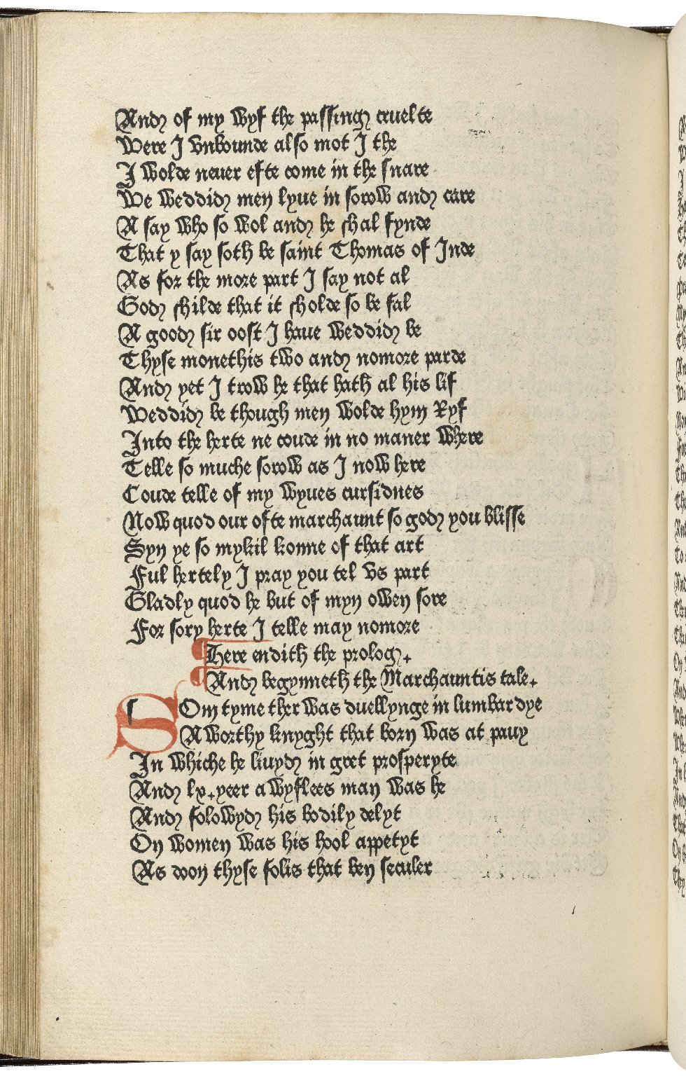 Caxton's 1477 edition of Chaucer's Canterbury Tales. Folger Shakespeare Library call number: STC 5082, fol. 108v